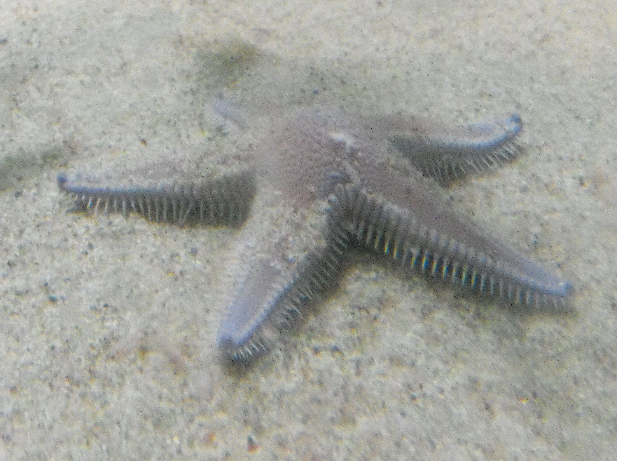 Astropecten armatus at the Birch Aquarium in San Diego, California, USA.